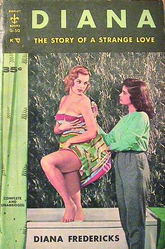 Cover of "Diana" by Diana Fredericks (Frances V. Rummell)